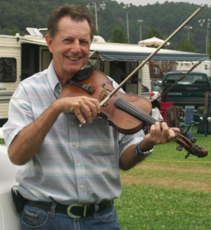 I photographed Jim Scancarelli, artist for the Gasoline Alley comic strip, at the Old Fiddlers Convention in Galax, VA on August 14, 2010.